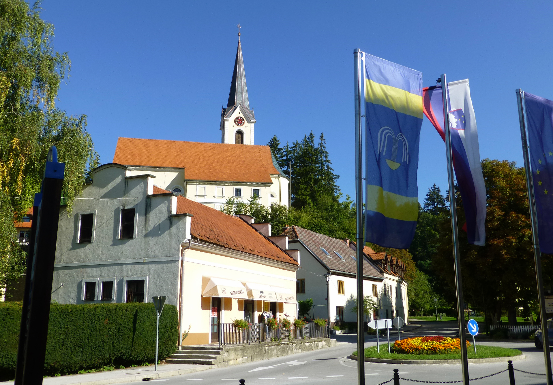 The center of Dobrna and its church, Slovenia. Spa municipality near Zalec.